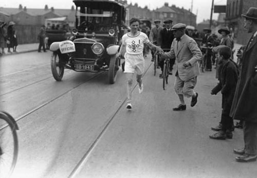 Bobby Mills during the Polytechnic Marathon photography, reproduction, no restrictions on use Copyright: free of charges